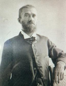 Charles J. Guiteau portret